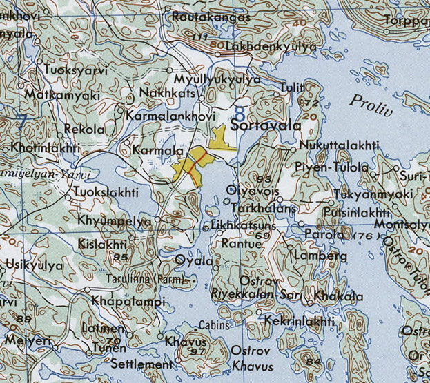 Closeup of :Sortavala, on Lake Ladoga, northwest USSR. List from Eastern Europe AMS Topographic Maps. Series N501, U.S. Army Map Service, 1954